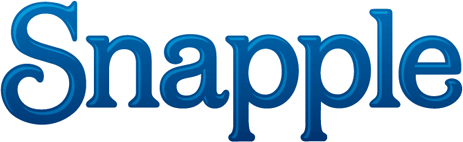 snapple